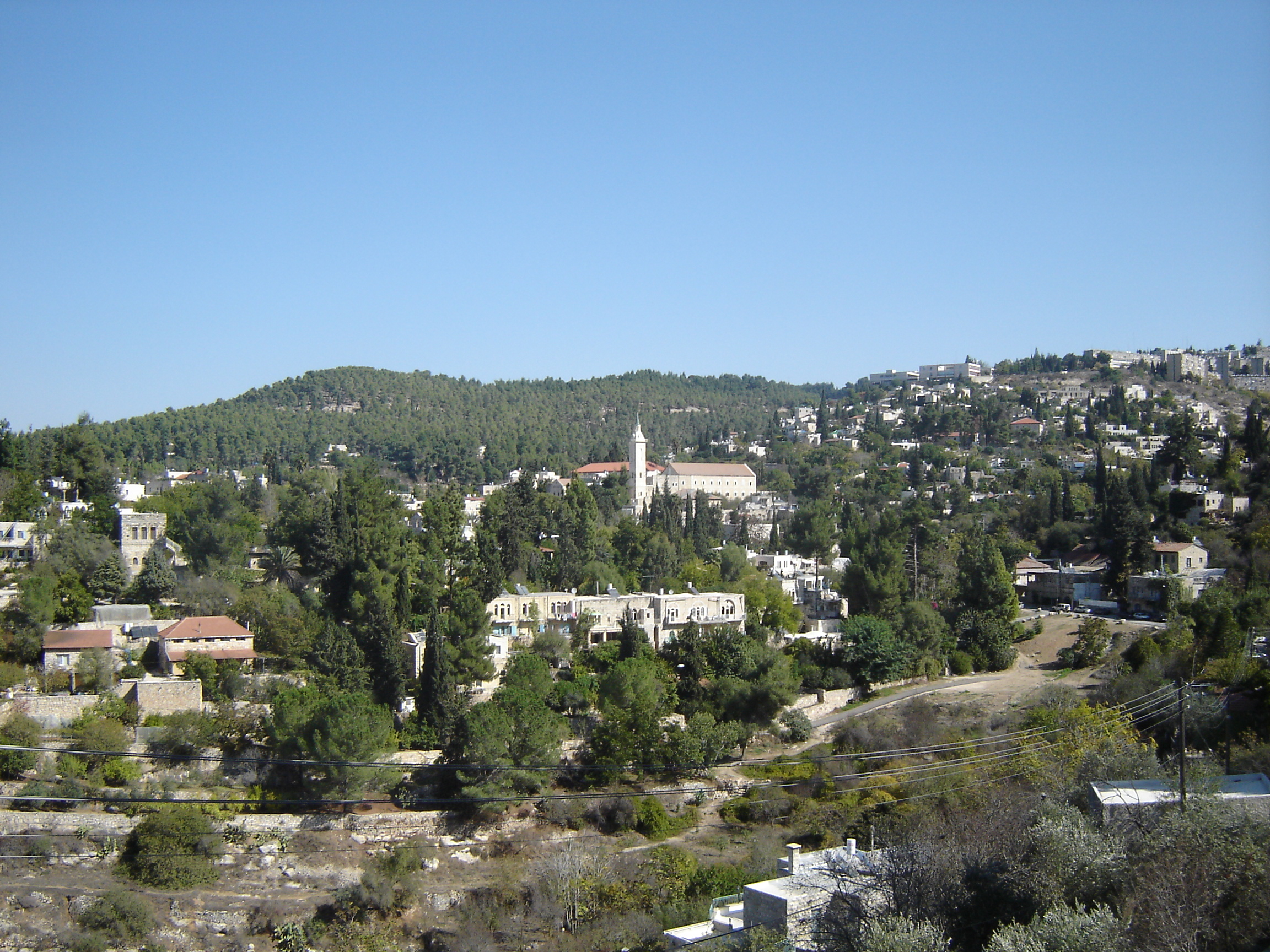 Ein Karem, 2006 (view from Gorny Monastery)